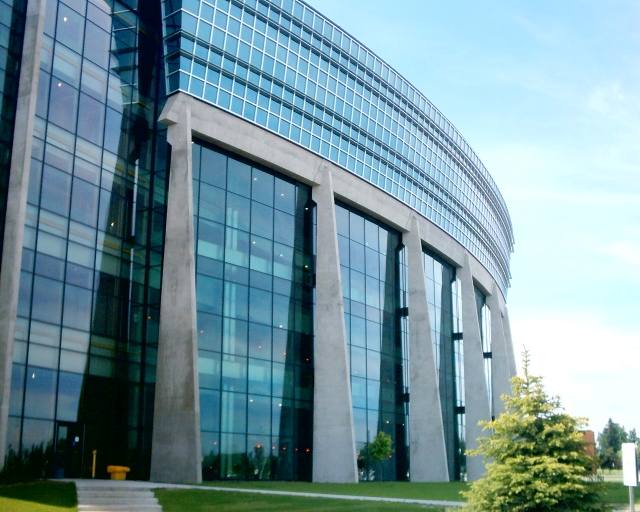 The ATAC Building at Lakehead University in Thunder Bay, Ontario